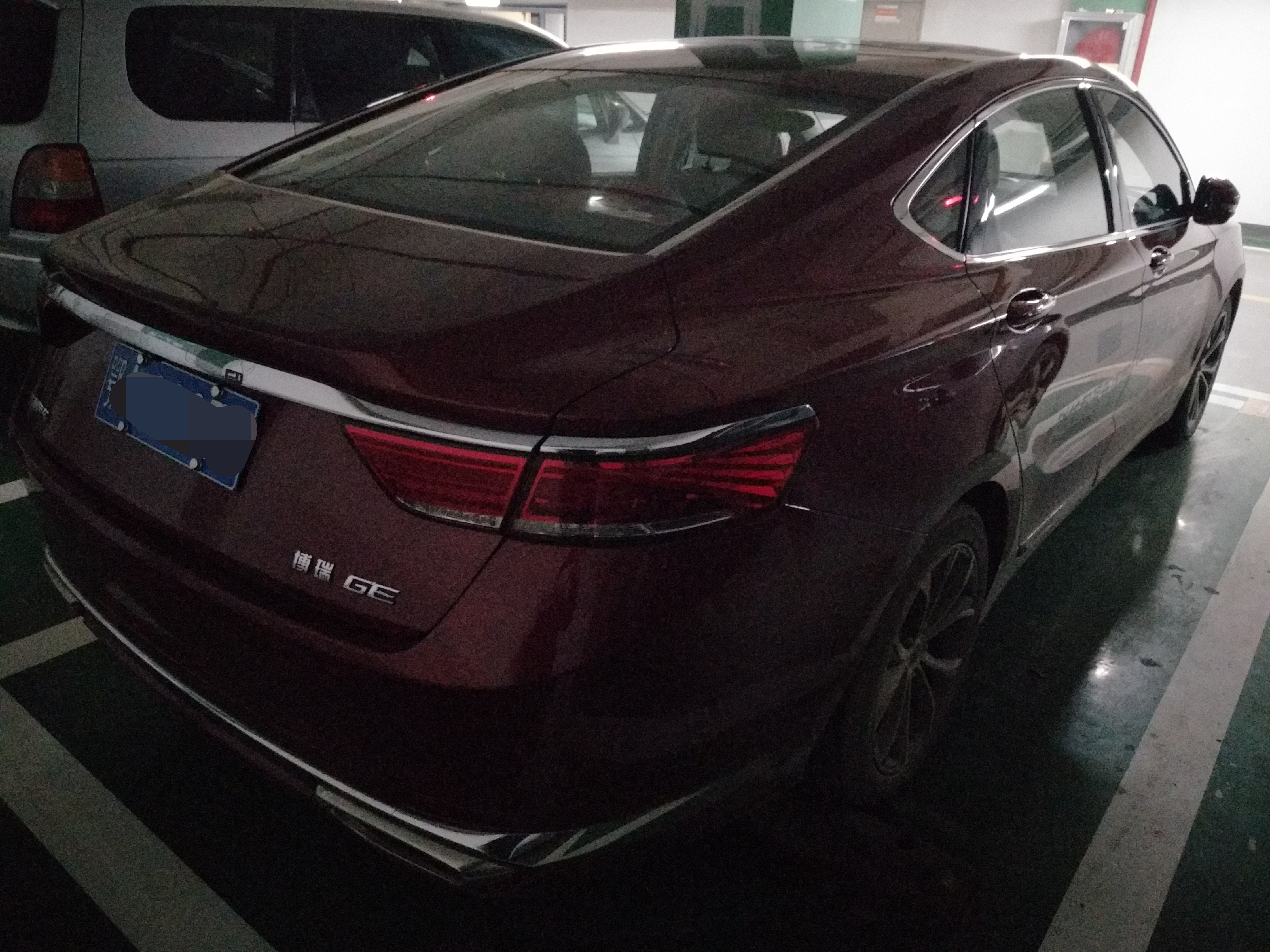 Geely Borui GE in a Underground Parking Lot